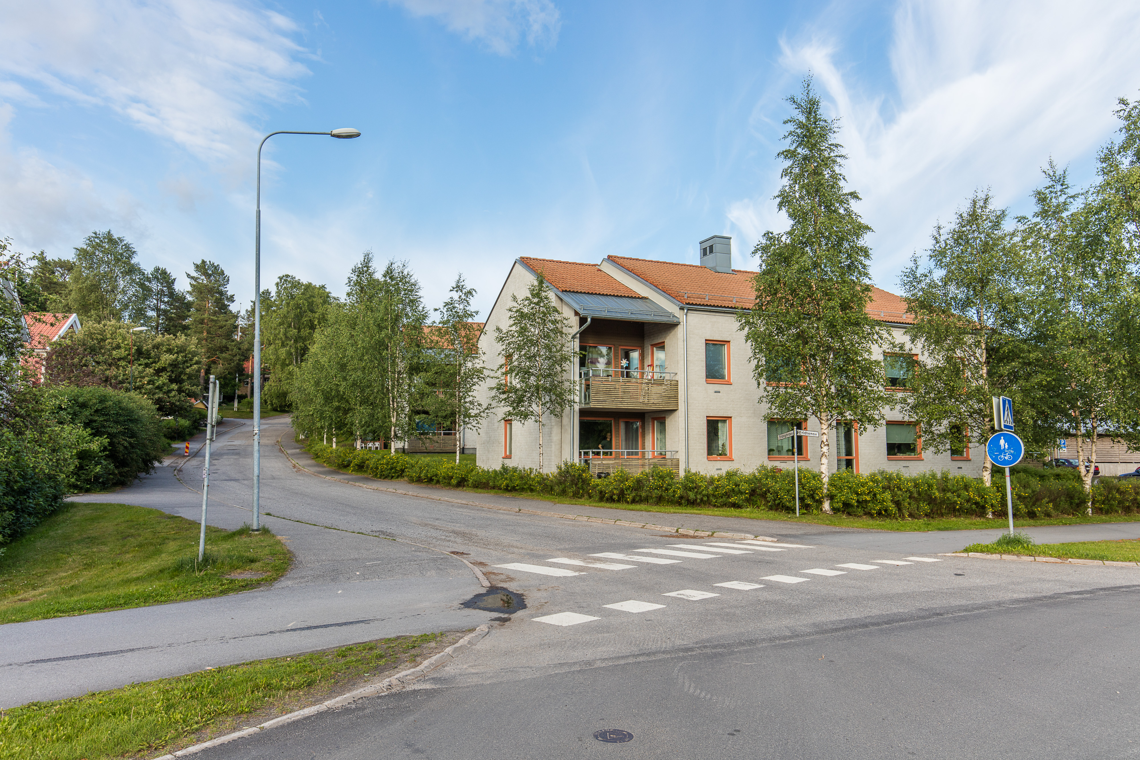 The Fridhemsvägen/Trädgårdsvägen crossing in the district of Fridhem, Umeå.